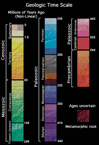 from public domain